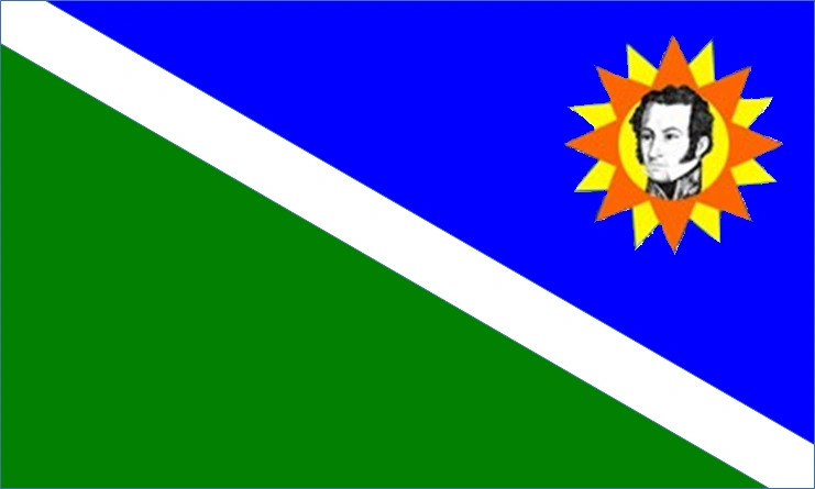 flag of the municipality of Sucre (Yaracuy), Venezuela